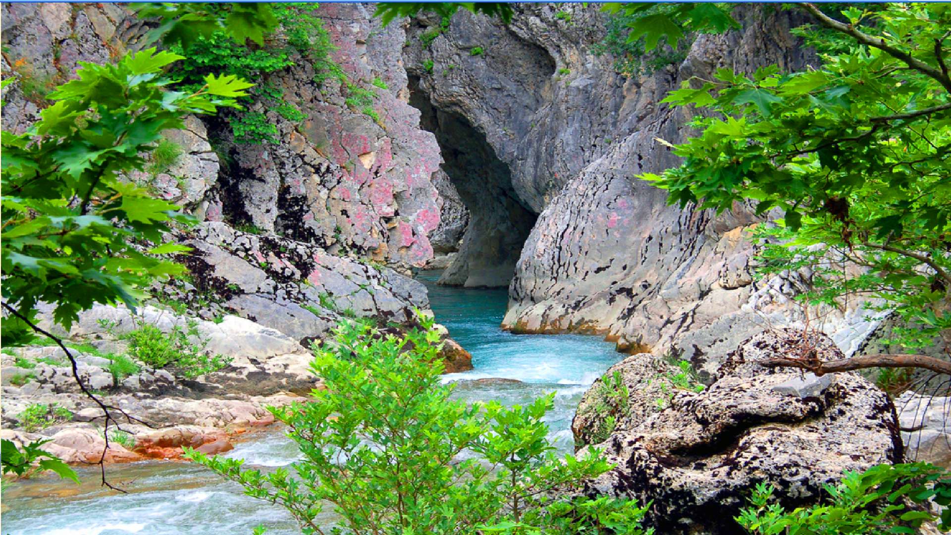 Acheron river canyon